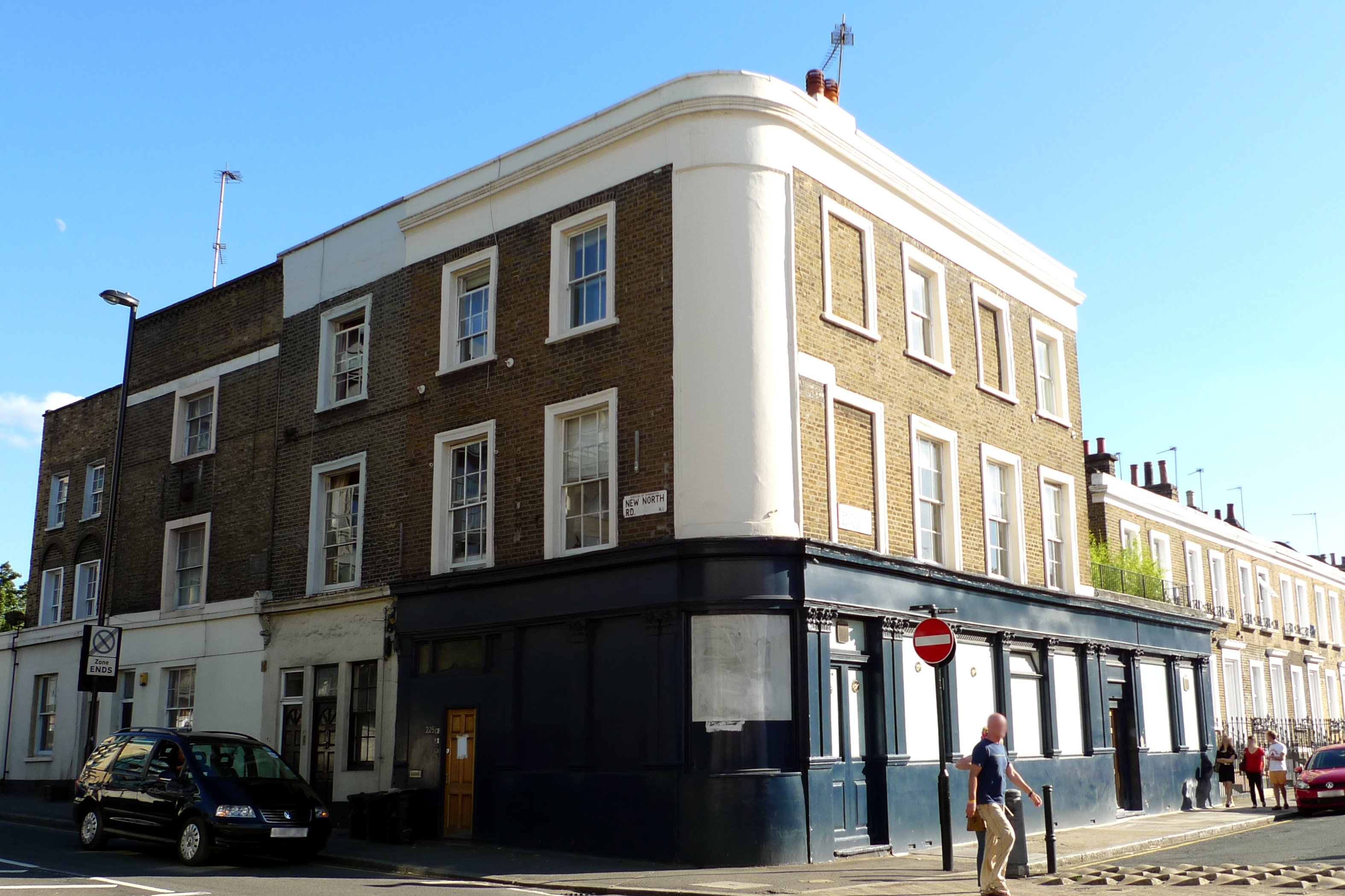 A former pub just near the canal. Address: 225 New North Road. Former Name(s): The Rydon Arms. Links: London Pubology